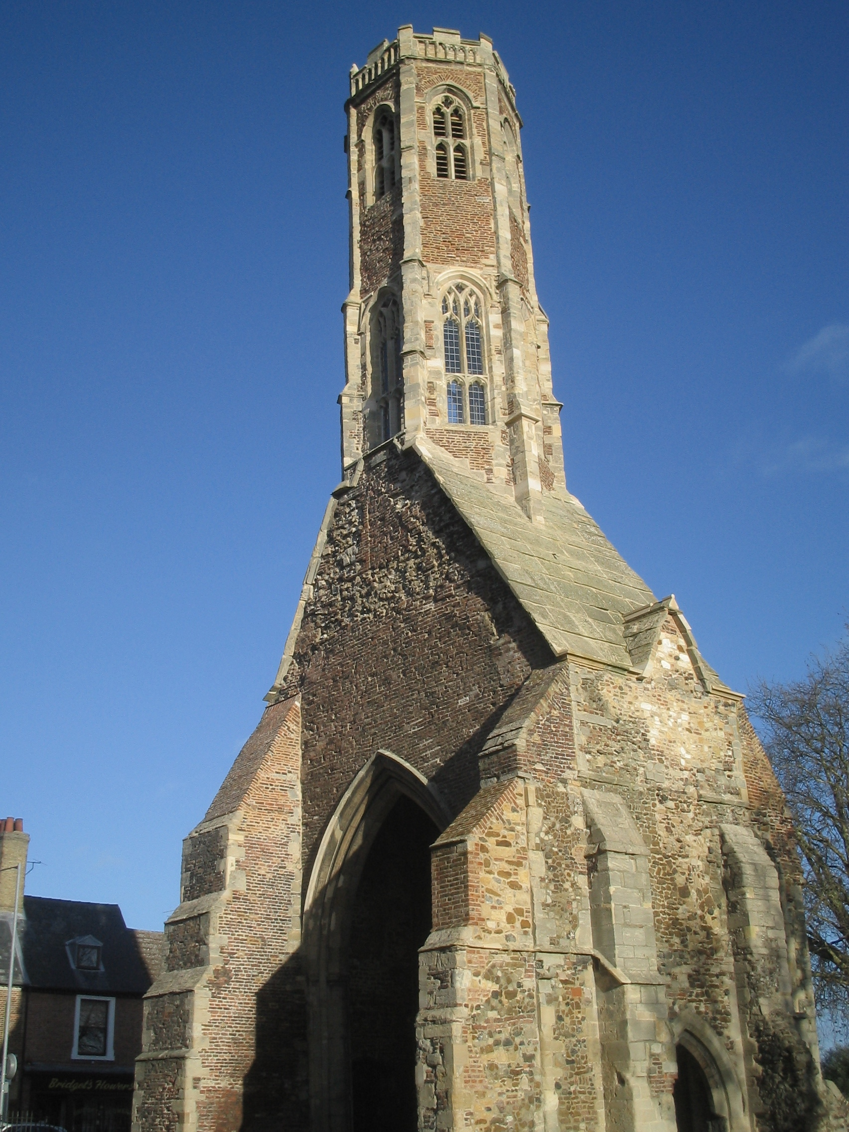 The Greyfriars Tower in King's Lynn The photograph was taken by myself (Ben Dickson) on December 3rd 2006 with a Canon iXus i Digital Camera.